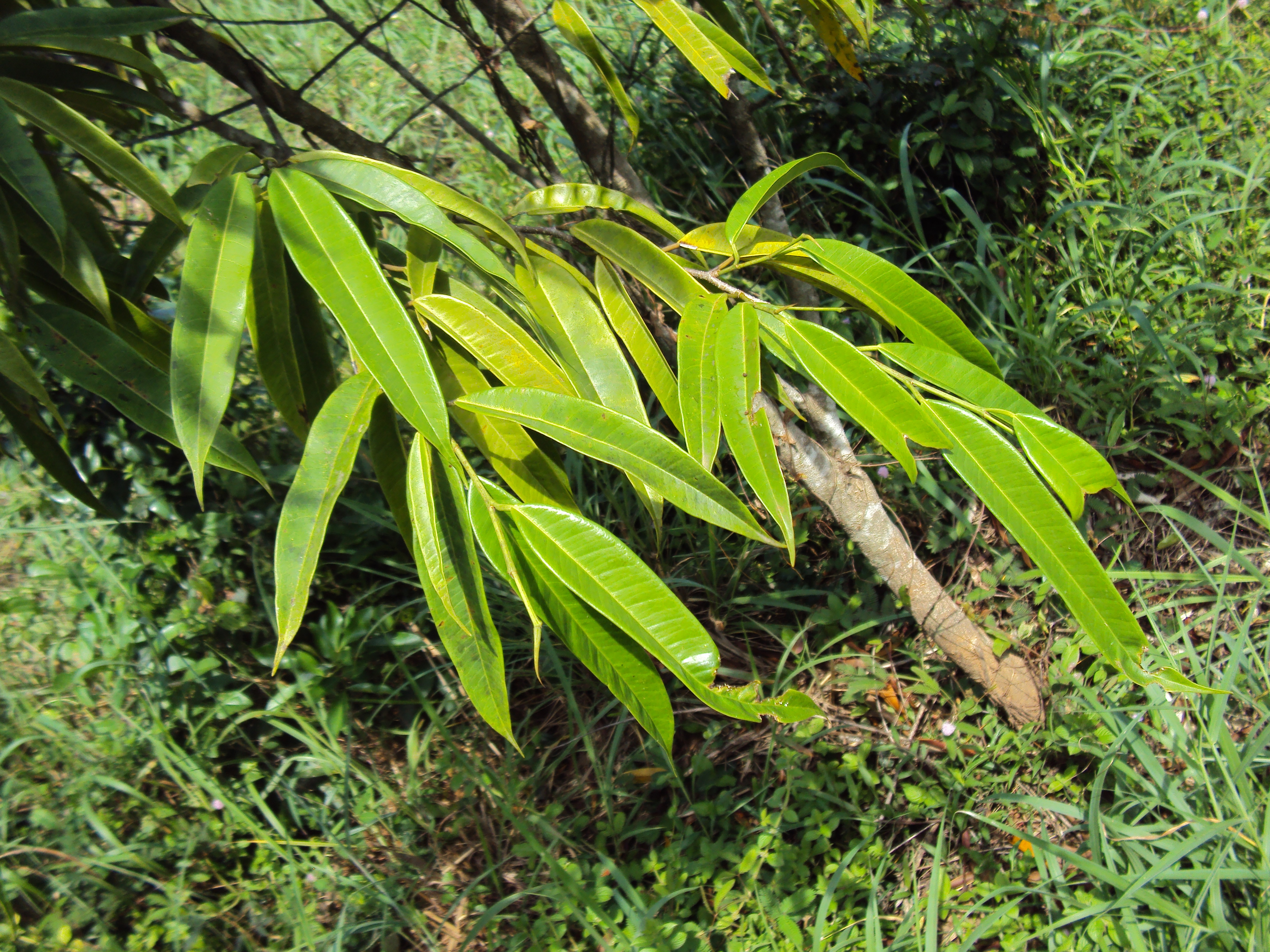 Fcus longifolia